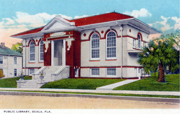 Postcard of the Ocala, Florida Public Carnegie Library built in 1916